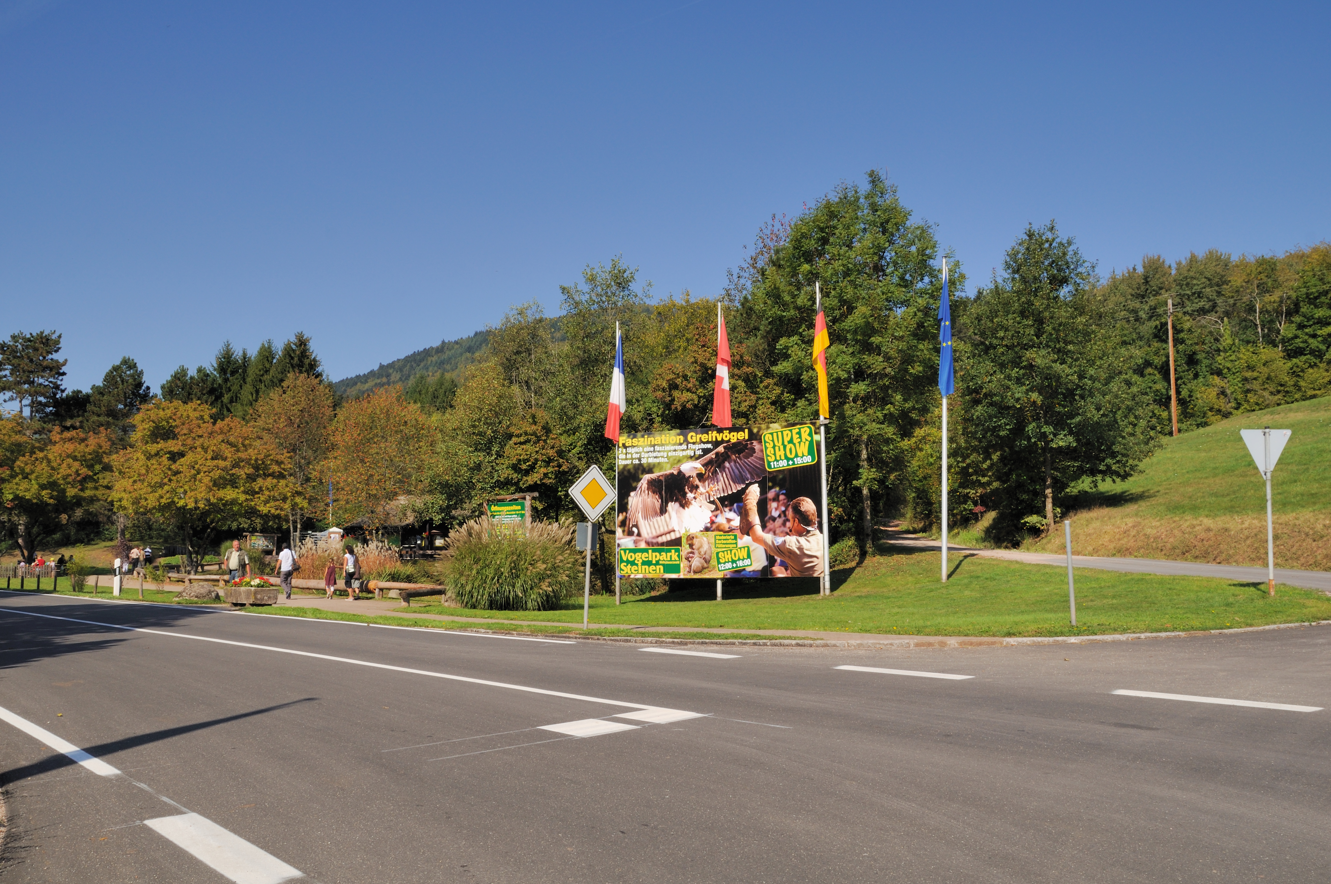 Steinen-Weitenau: birdpark